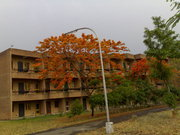 This picture depicts the 3rd year boys hostel inside the DCRUST, Murthal campus.